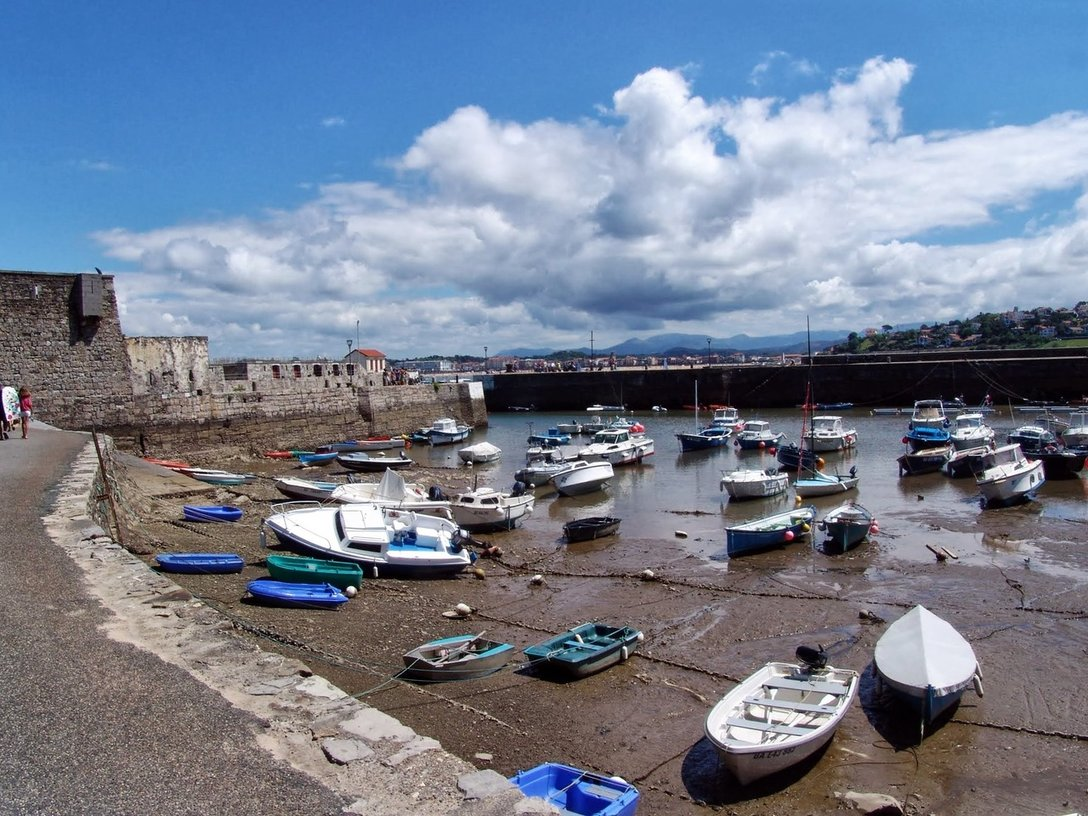 Port Saint Jan de Lus